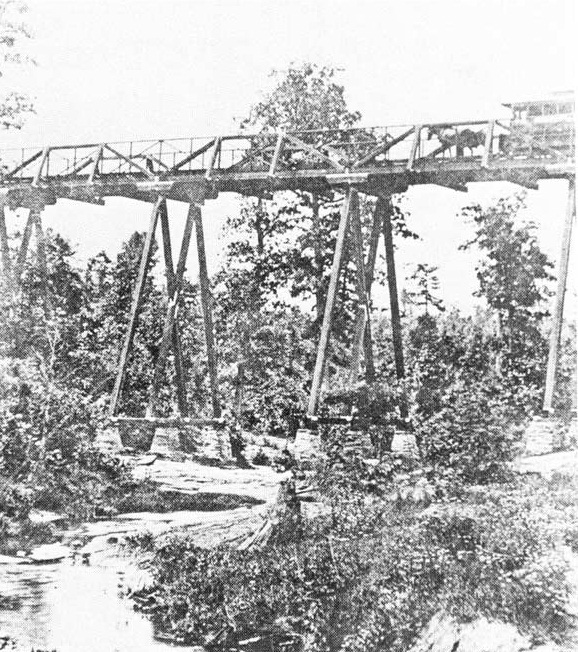 A horse-drawn streetcar crossing bridge over Clear Creek near today's Ponce de Leon Ave. at Penn Ave., Midtown Atlanta